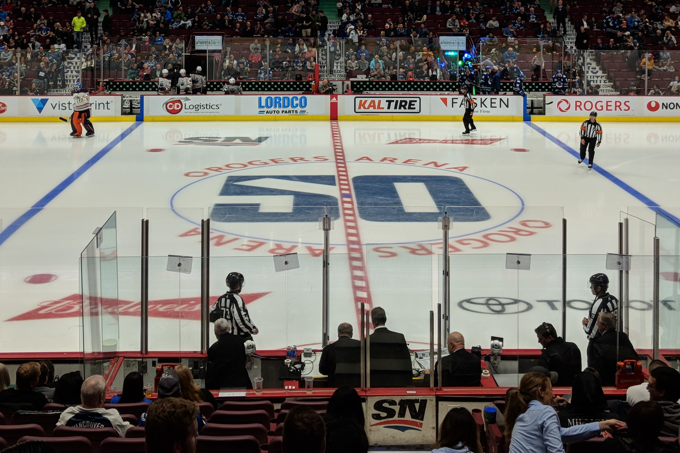 Vancouver Canucks centre ice logo for the 2019–20 NHL season celebrates the franchises 50th Anniversary. Photo taken in September 2019.